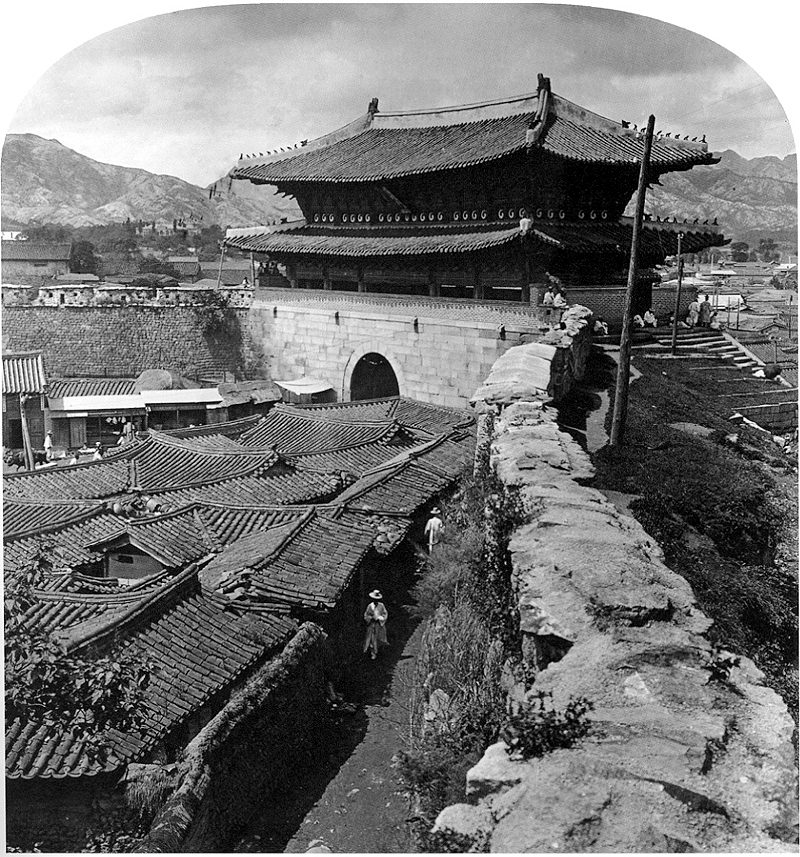 sungnyemun in 1904